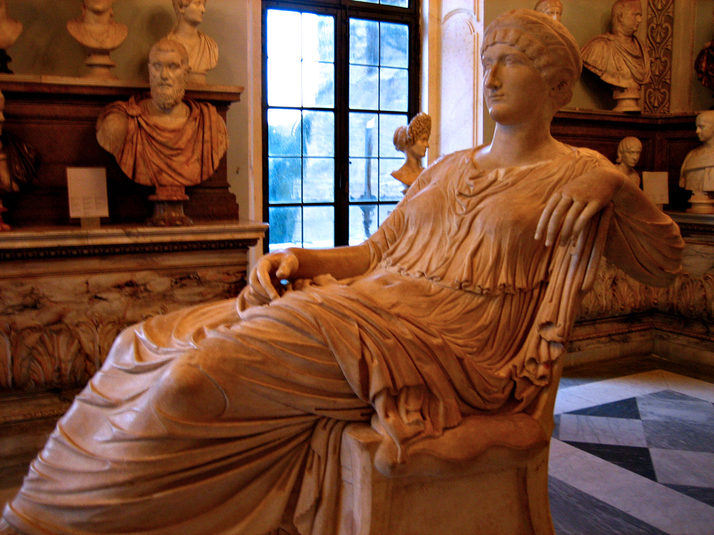 Constantine's mother, the future saint Helena, here relaxes laughingly in a chair. One of ancient Rome's few surviving imperial portraits of this kind.